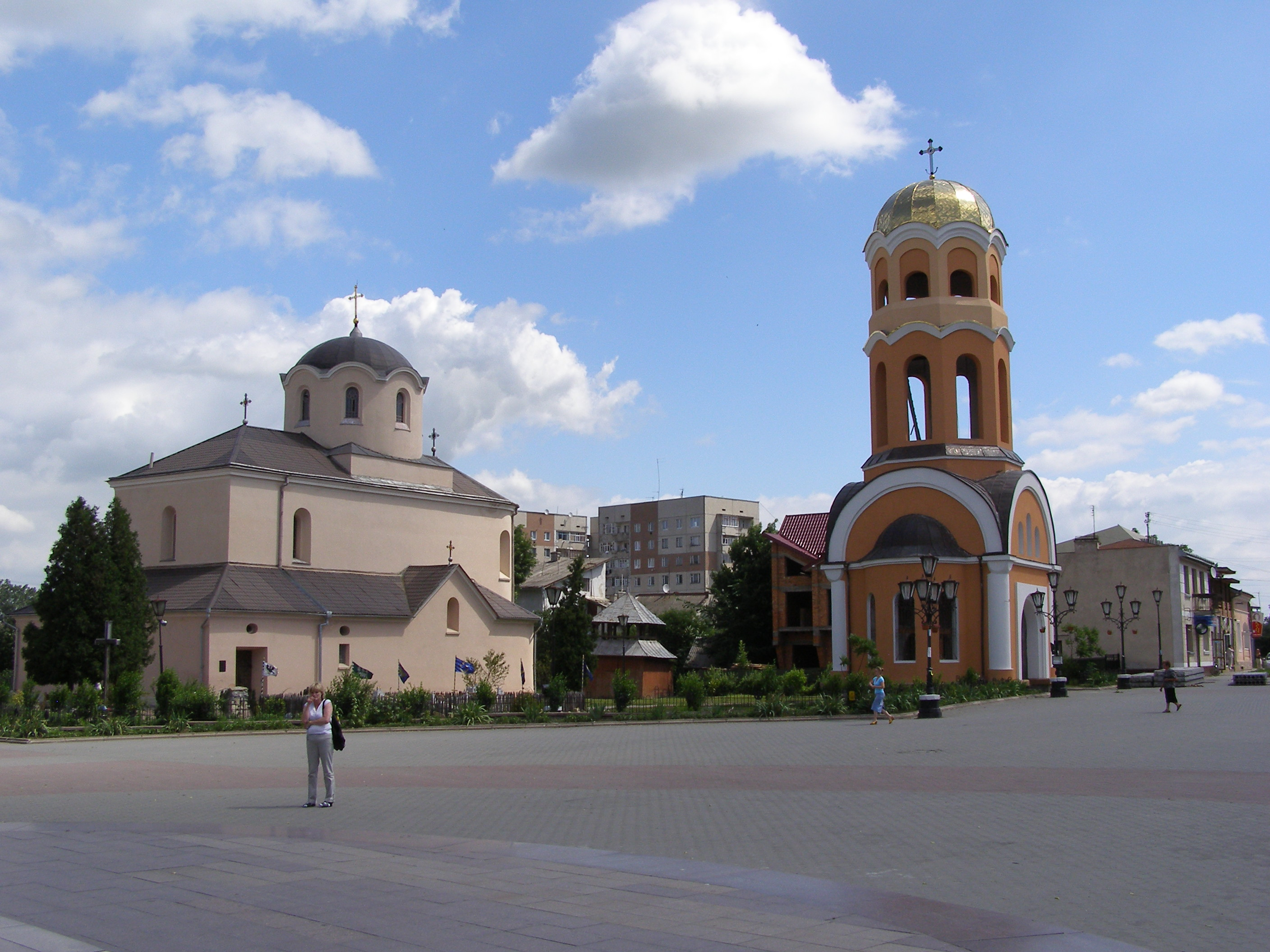 Ancient town of Halych, Ivano-Frankivsk Oblast, western Ukraine